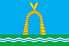 Flag of Bataysk, Rostov Region, Russia